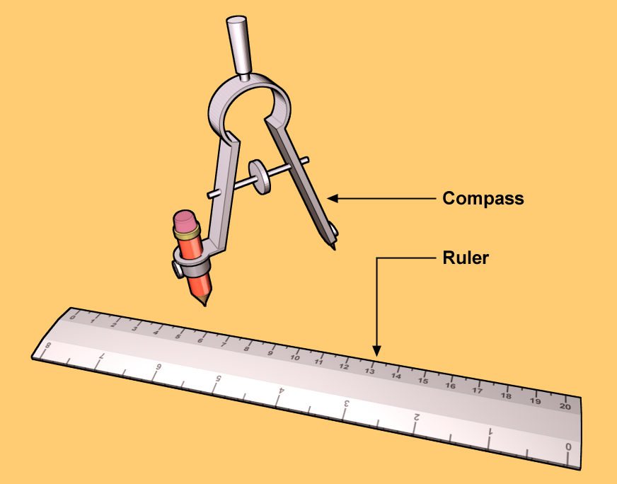 geometry